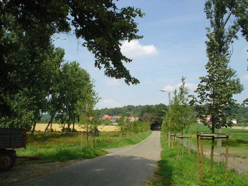 Picture taken by User:dri3s in August 2004.